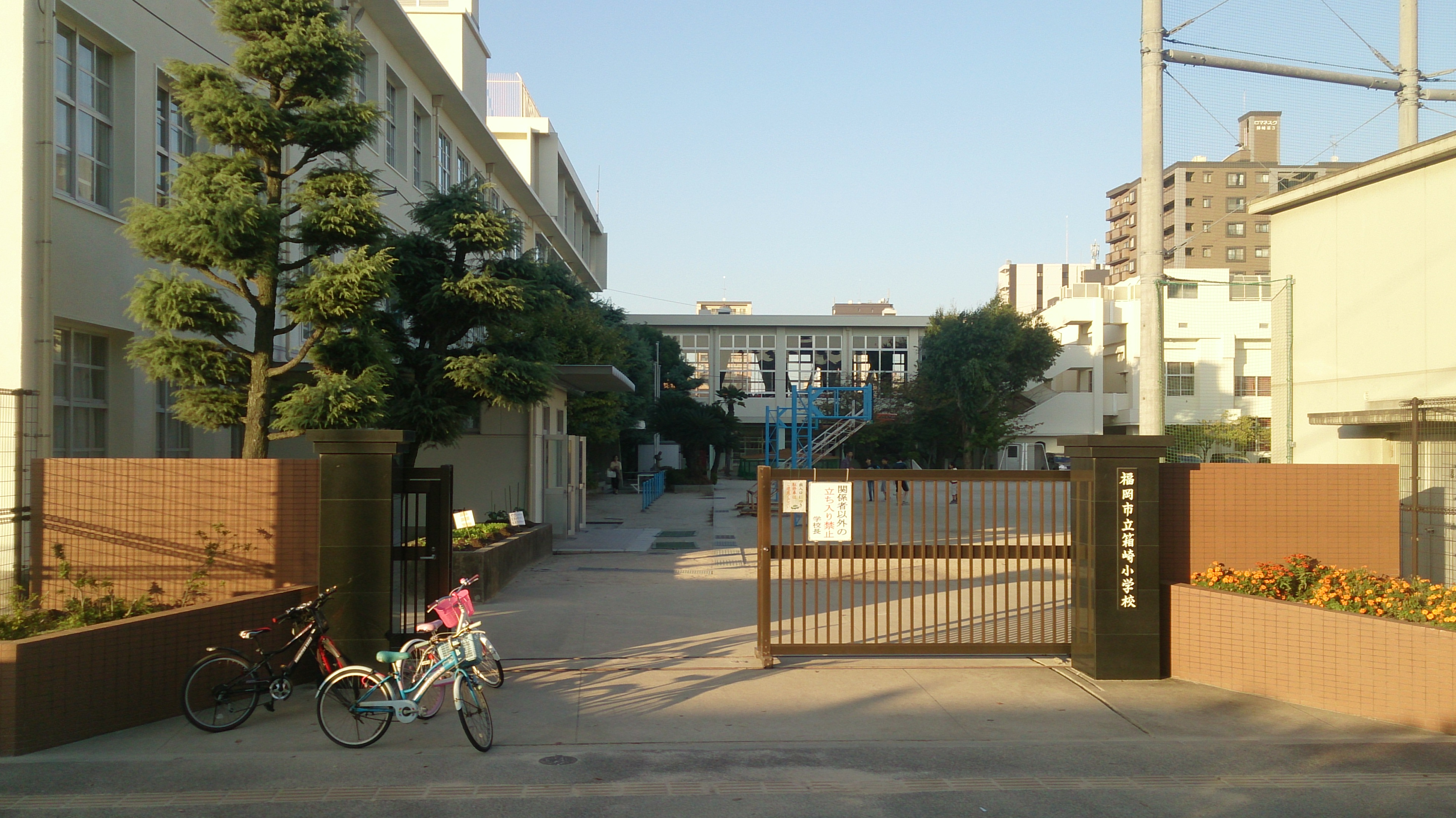 Hakozaki Elementary School South Gate